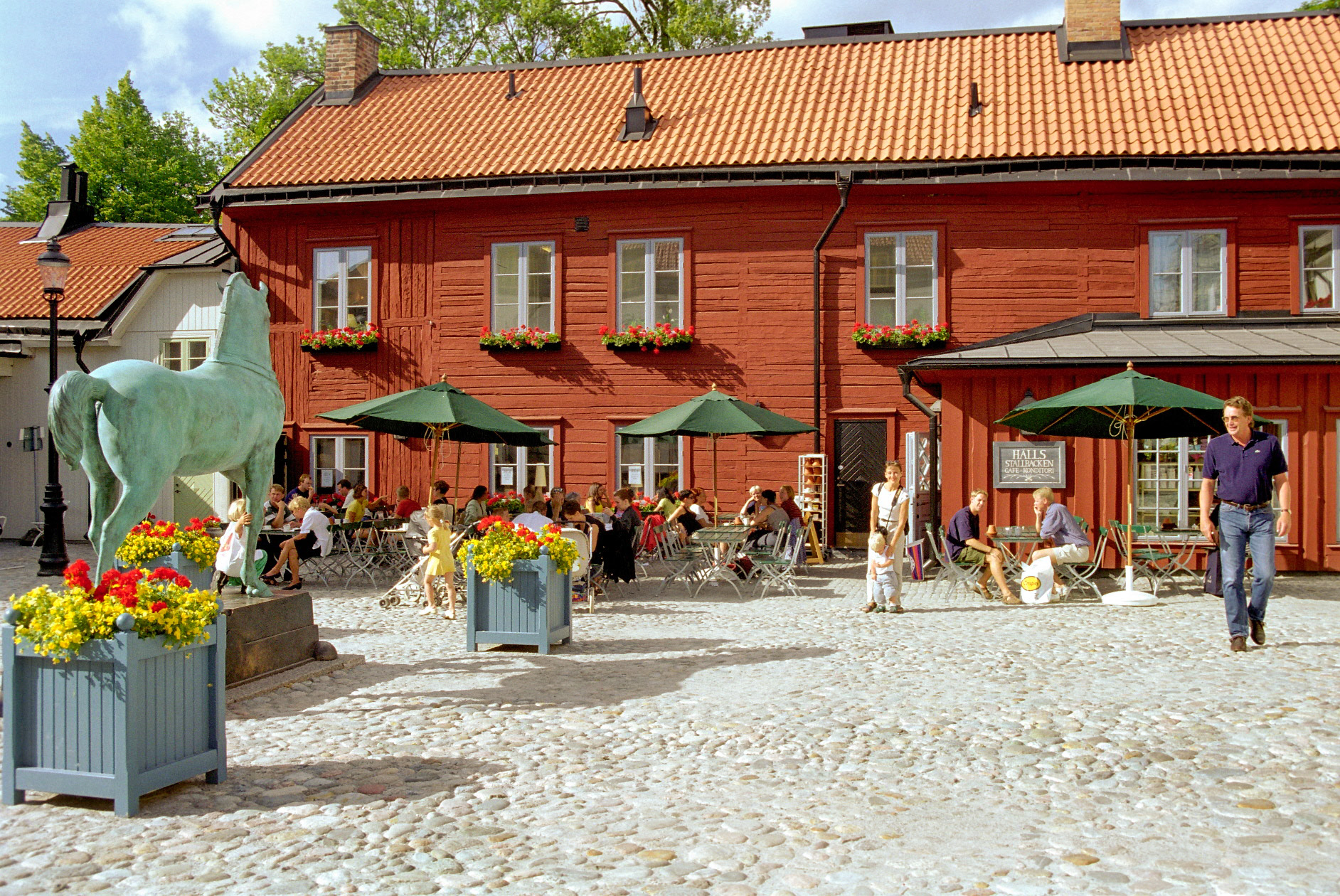 The square "Stallbacken" Örebro Sweden